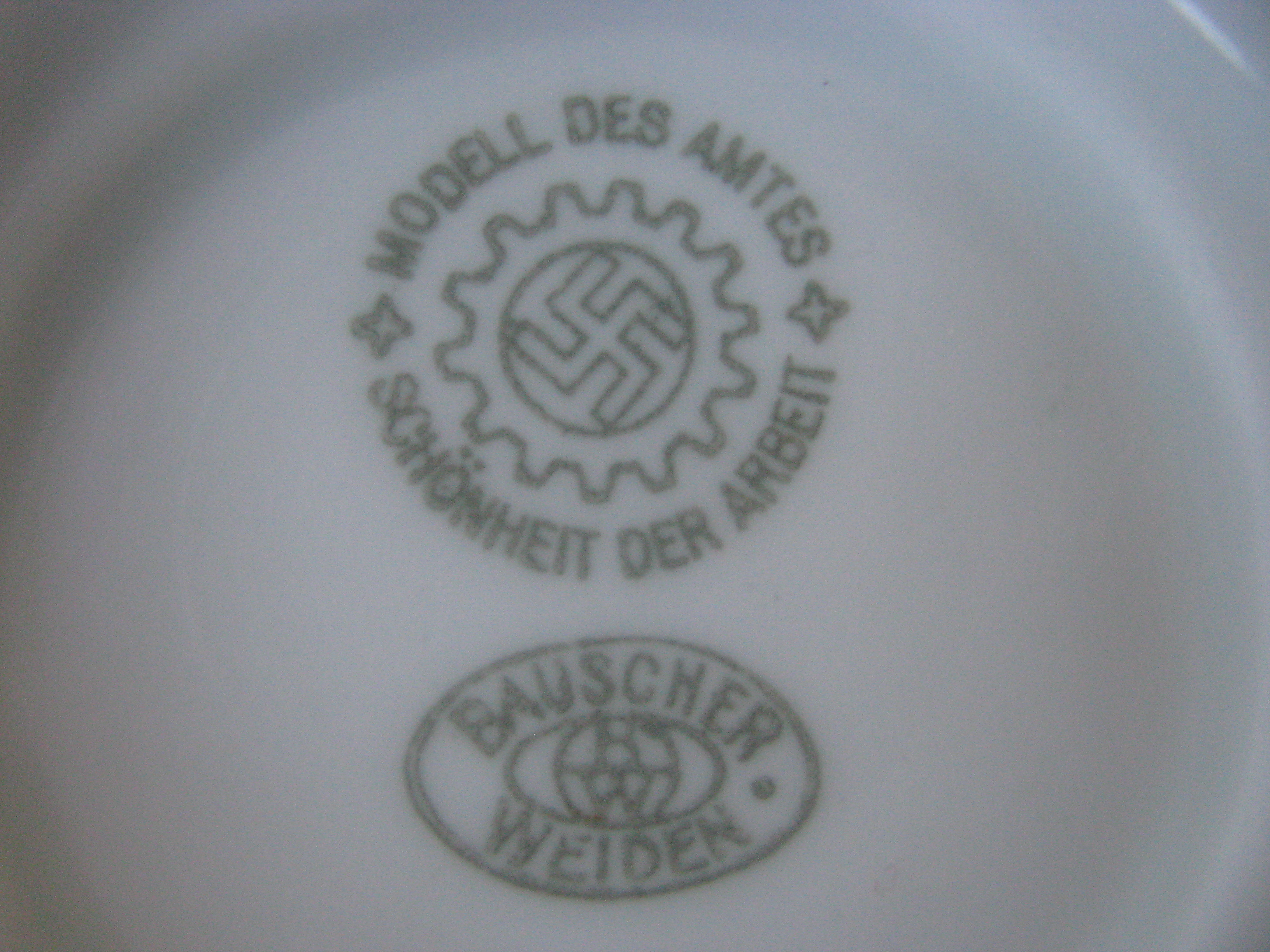 Soup bowl of the Nazi agency Beauty of Labour ...